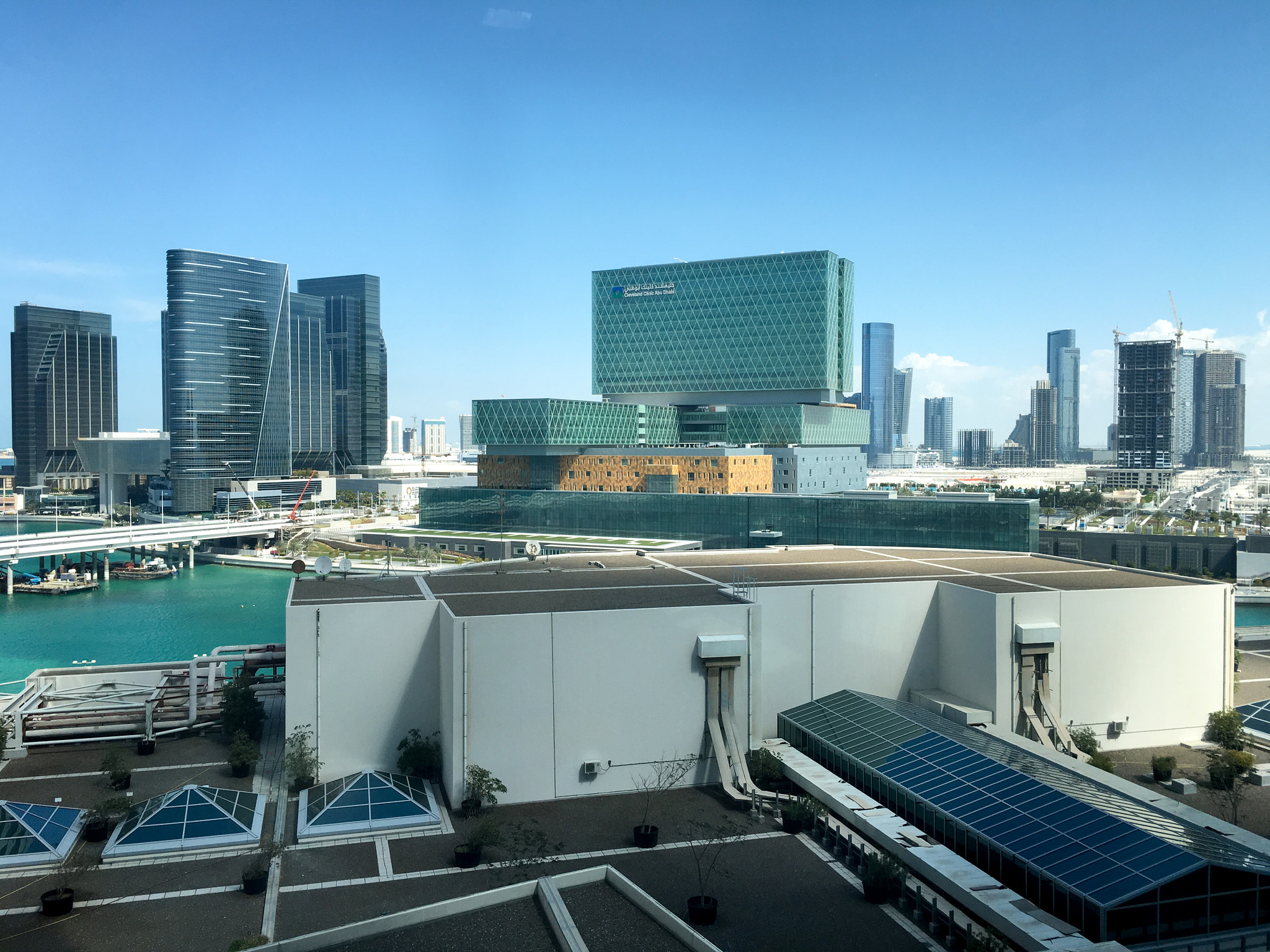 500px provided description: Cleveland Clinic Abu Dhabi [#city ,#building ,#hospital ,#Abu Dhabi ,#UAE ,#United Arab Emirates]